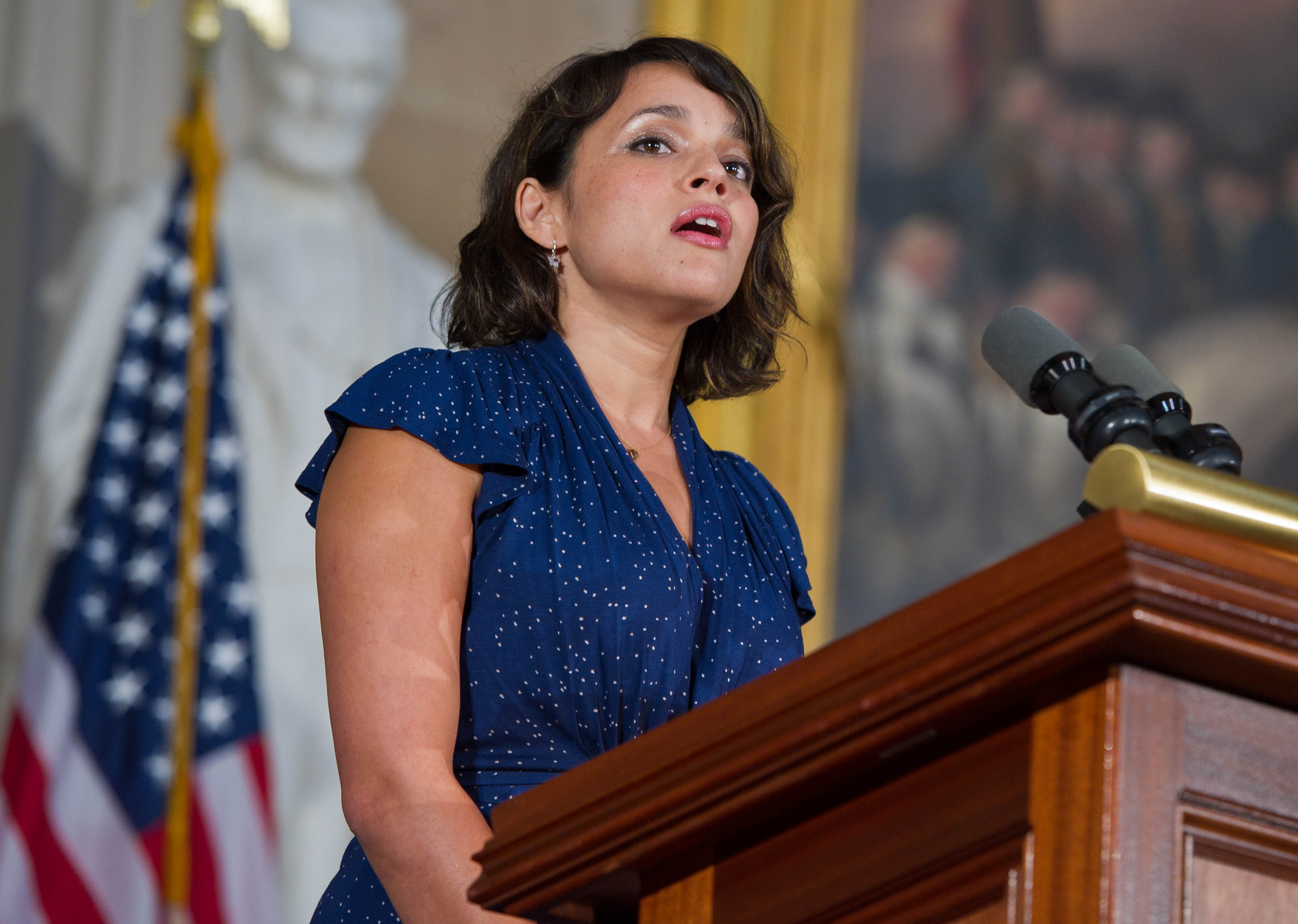 Grammy Award winning singer/songwriter Norah Jones sings "America The Beautiful" during a Congressional Gold Medal Ceremony honoring Apollo 11 astronauts Neil Armstrong, Buzz Aldrin and Michael Collins along with John Glenn, the first American to orbit the Earth, in the Rotunda at the U.S. Capitol, Wednesday, Nov. 16, 2011, in Washington. The Congressional Gold Medal is an award bestowed by Congress and is, along with the Presidential Medal of Freedom the highest civilian award in the United States. The decoration is awarded to an individual who performs an outstanding deed or act of service to the security, prosperity, and national interest of the United States.